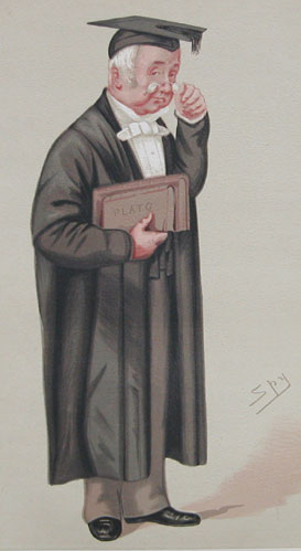 Caricature of Benjamin Jowett (1817-1893). Caption read "Greek".